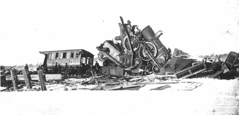 November 15, 1875, railway accident between Linköping and Vikingstad, Sweden. This photo was taken a few days after the accident. On the left is train "Svea", to the right train "Einar".